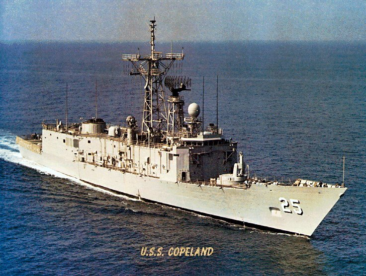 The U.S. Navy guided missile frigate USS Copeland (FFG-25) underway at sea, in the 1980s.